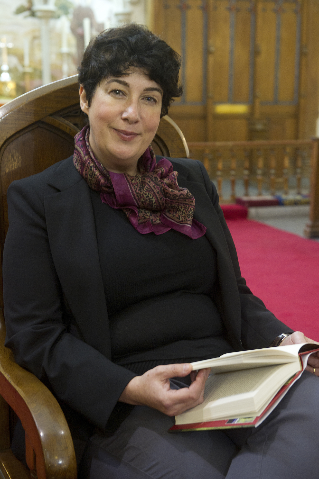 Joanne Harris at the King's Chapel during the Gibraltar International Literary Festival held in October 2013.